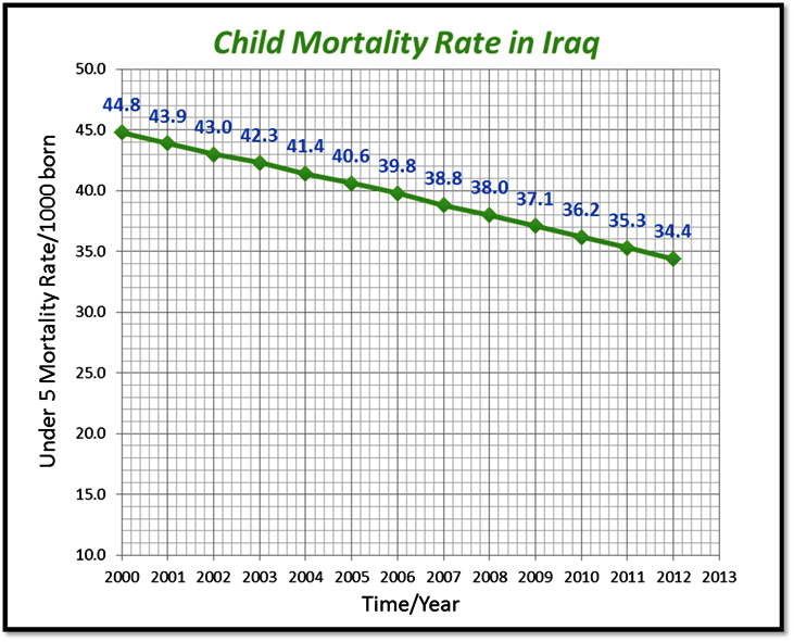 A graphical data